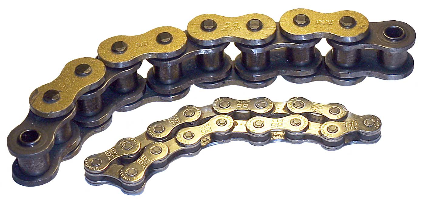 Roller chain, used to transmit power in motorcycles and bicycles. Photo shows two different sizes.